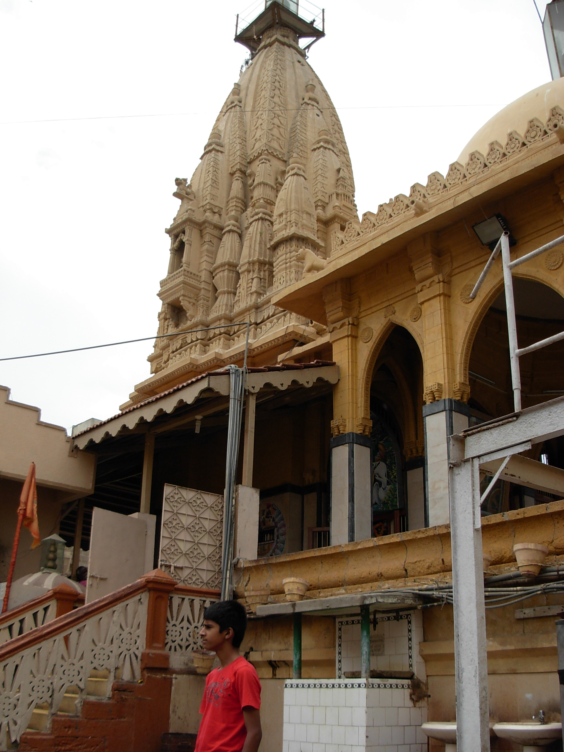 SWAMI NARAYAN TEMPLE HADDID UDDIN